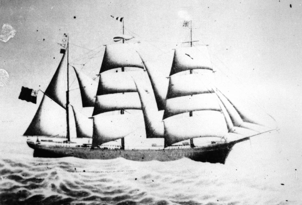 Snow Queen (ship) Built 1872. 984 tons. (Descriptions supplied with photograph).